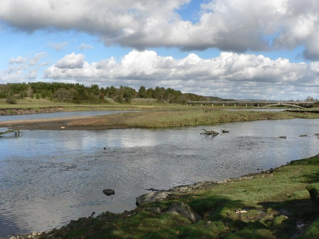 Portobello Island on the Ogmore This shingle and mud bank is a regular roosting spot for birds and a number of rarities have presented themselves here.